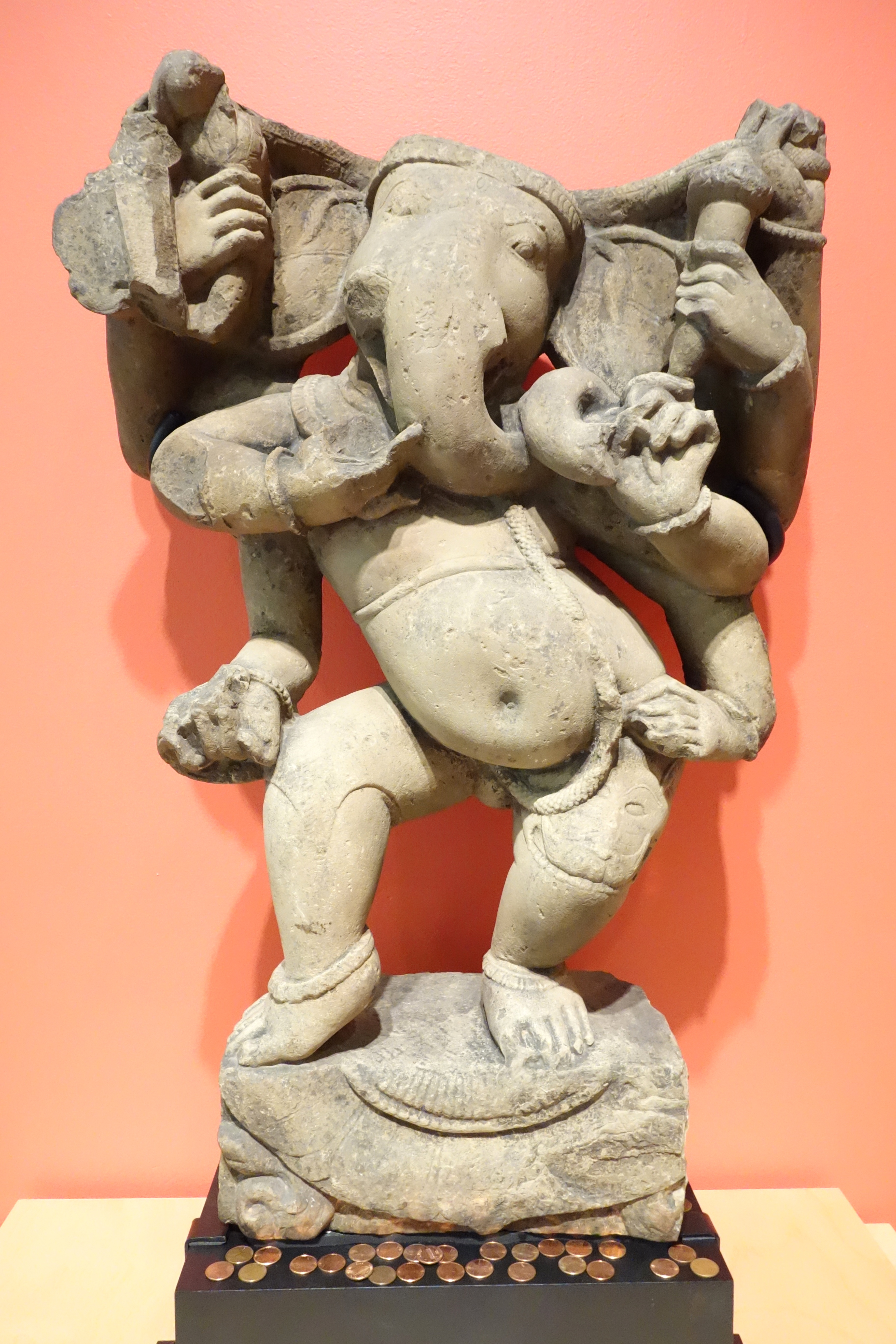 Exhibit in the Berkeley Art Museum and Pacific Film Archive, 2625 Durant Avenue #2250, Berkeley, California, USA. This museum is part of the University of California, Berkeley. This artwork is in the public domain because the artist died more than 70 years ago. Photography of this exhibit was permitted without restriction.